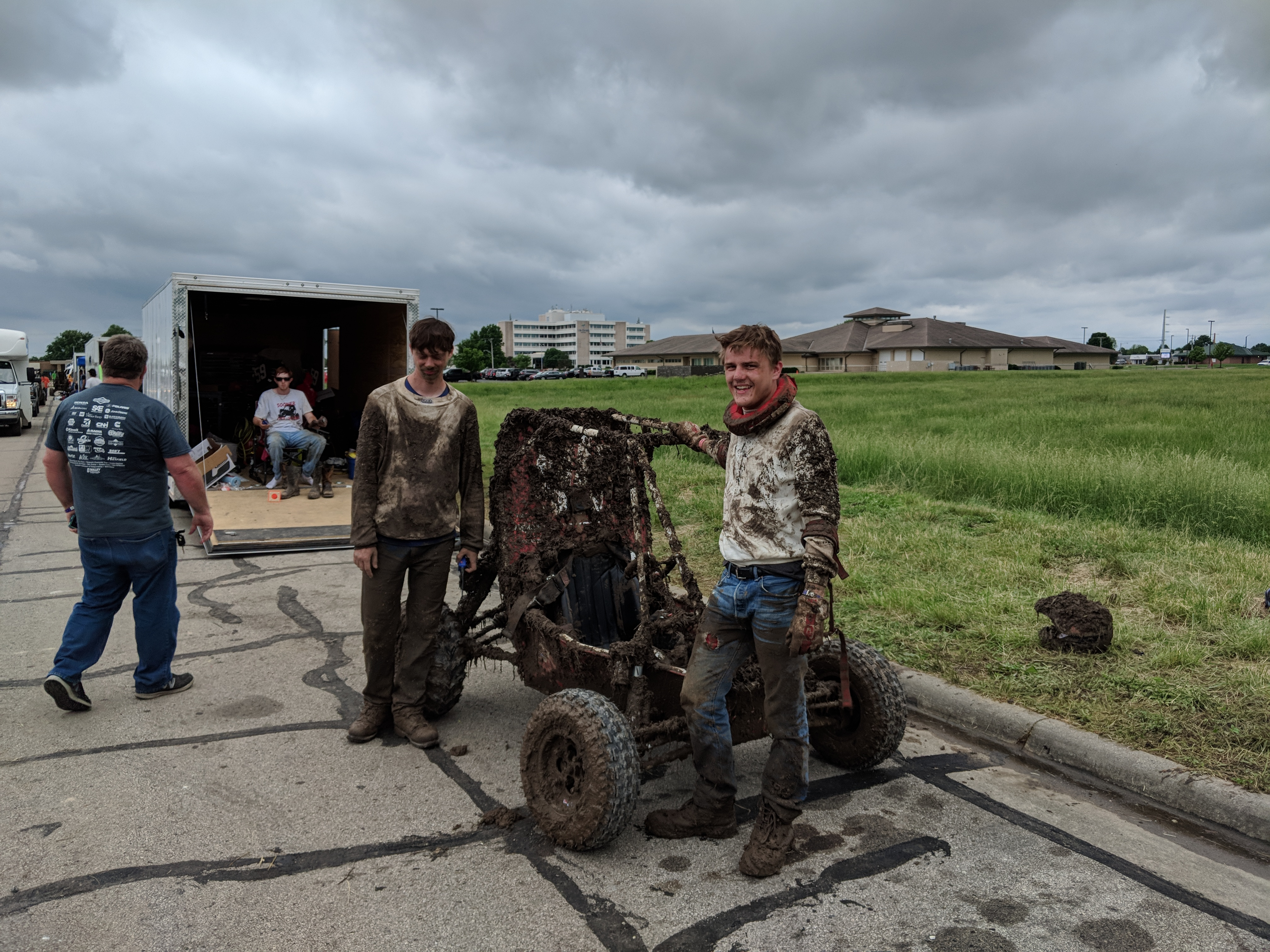 University of Oklahoma vehicle and two drivers after the 2018 Baja SAE Kansas endurance race. The race was extremely muddy due to a downpour the night before, and cars became virtually indistinguishable from each other.